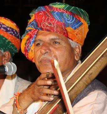 Prahlad Singh Tipaniya